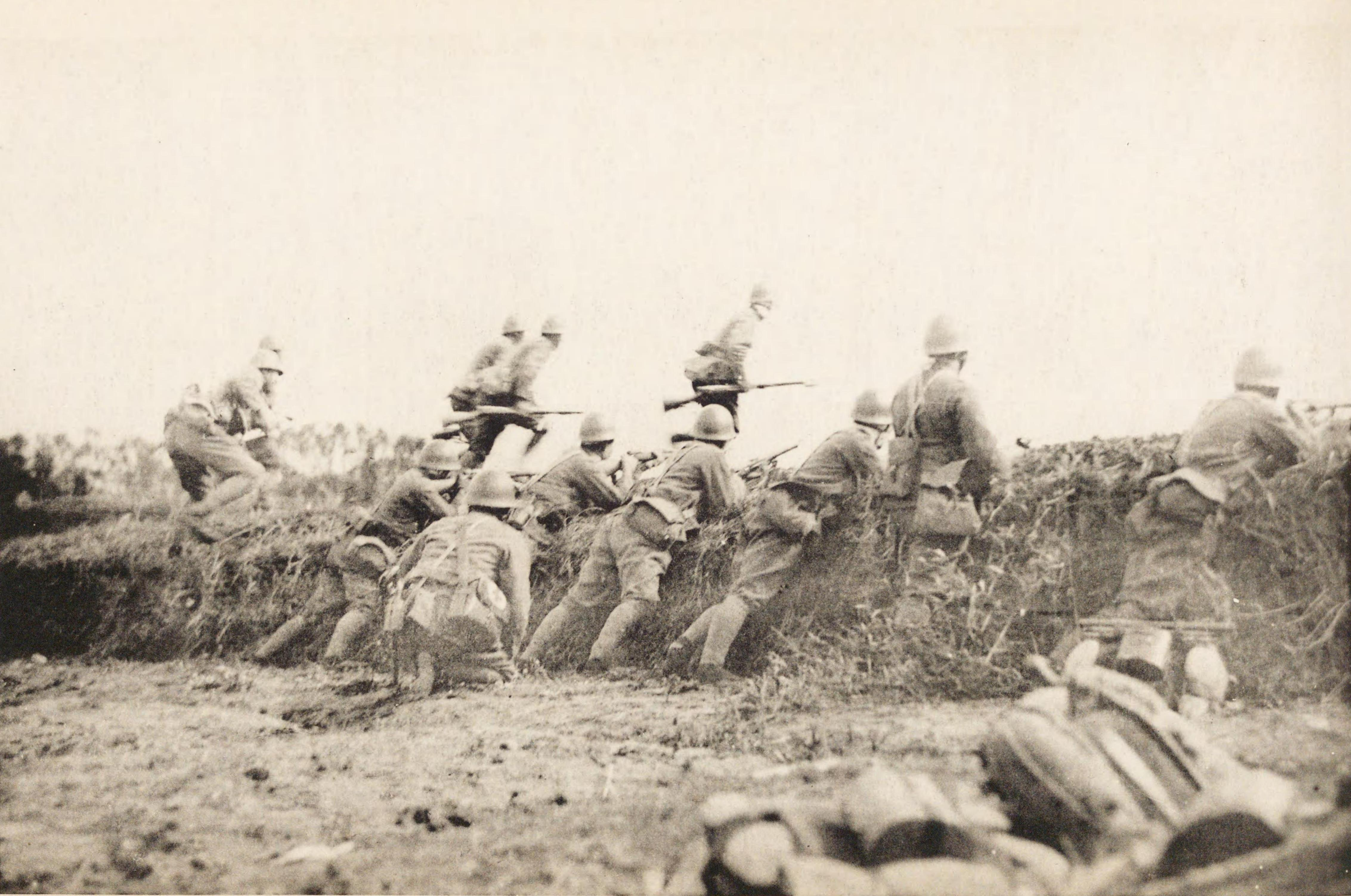 Japanese soldiers just going to attack in Kiangwan front.